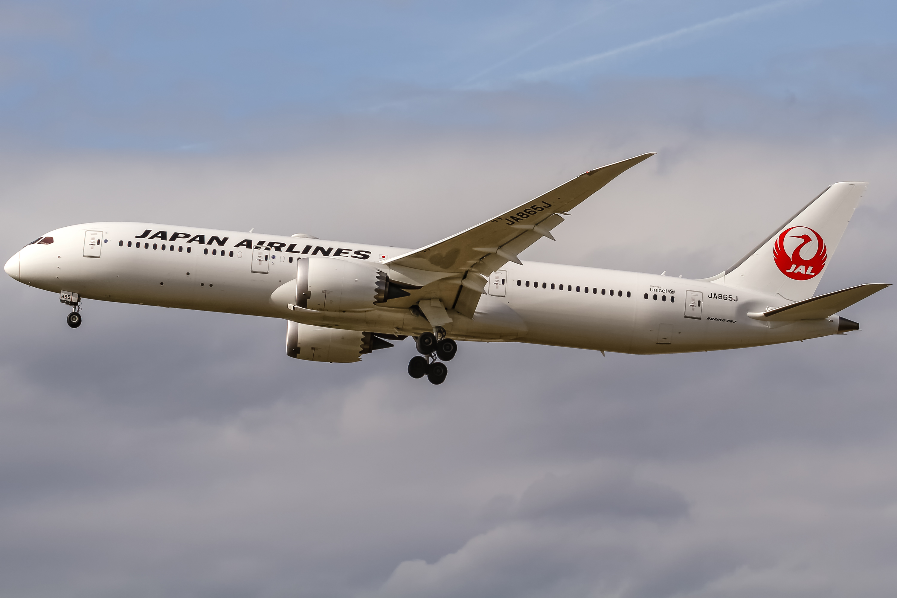 Go-around - JA865J Japan Airlines Boeing 787-9 Dreamliner coming in from Tokyo (NRT / RJAA) and going around due to traffic on runway 25L @ Frankfurt - Rhein-Main International (FRA / EDDF) / 29.03.2017